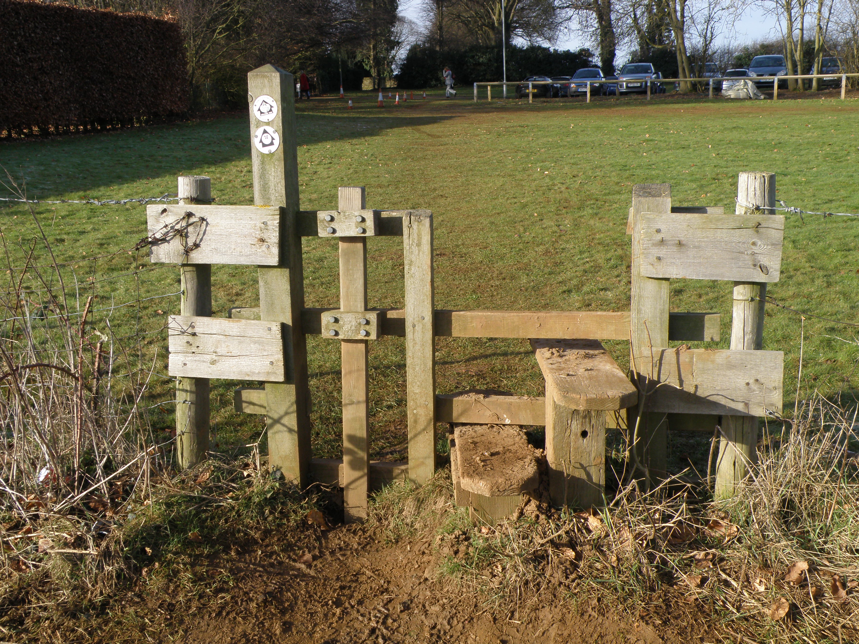 Dog friendly stile A robust structure on the Jurassic Way long distance footpath enhanced by the lift up slide rail to the left to facilitate mans best friend not having to leap over. The first time I had seen one like this or took any notice and behold there were more to come.